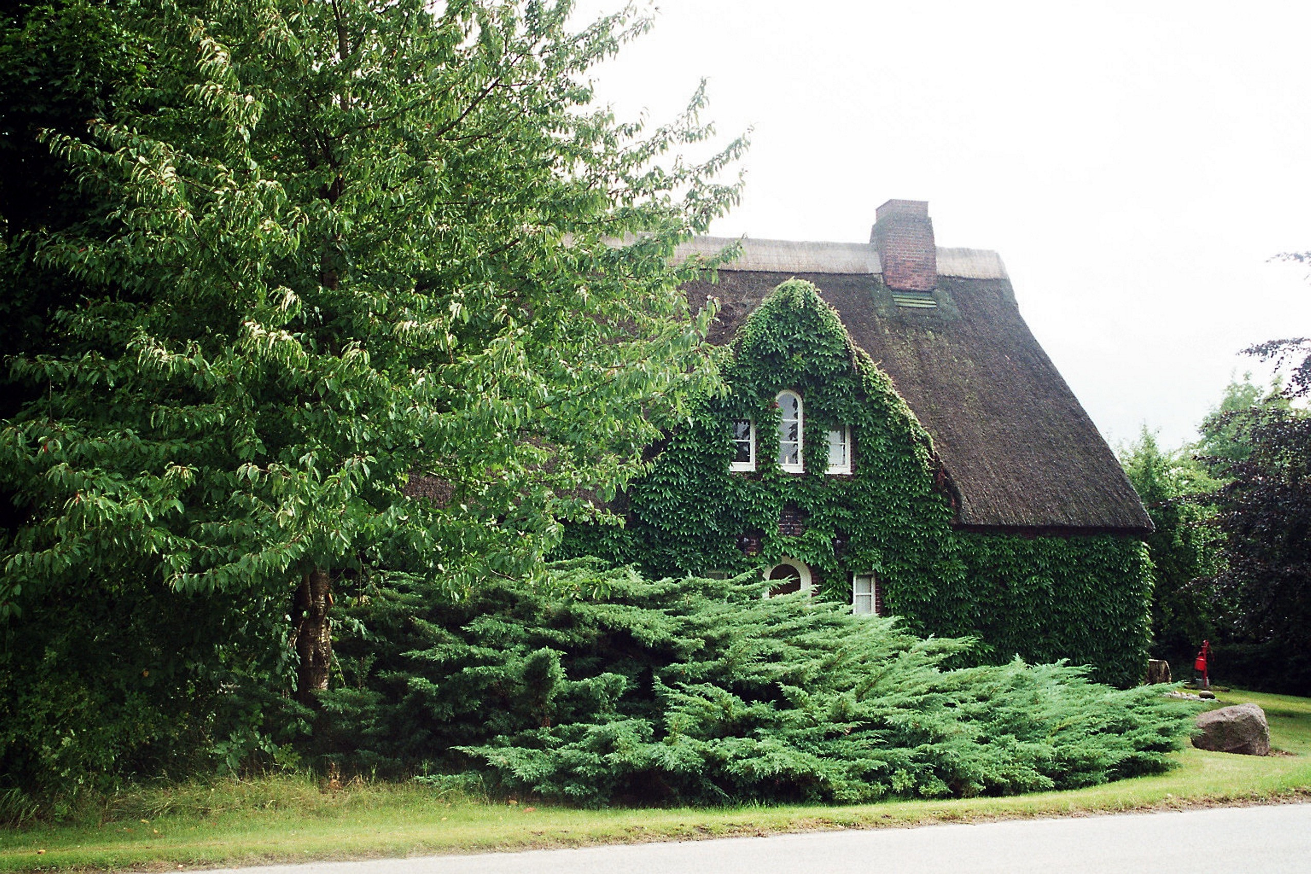 Brodersdorf, house in the green